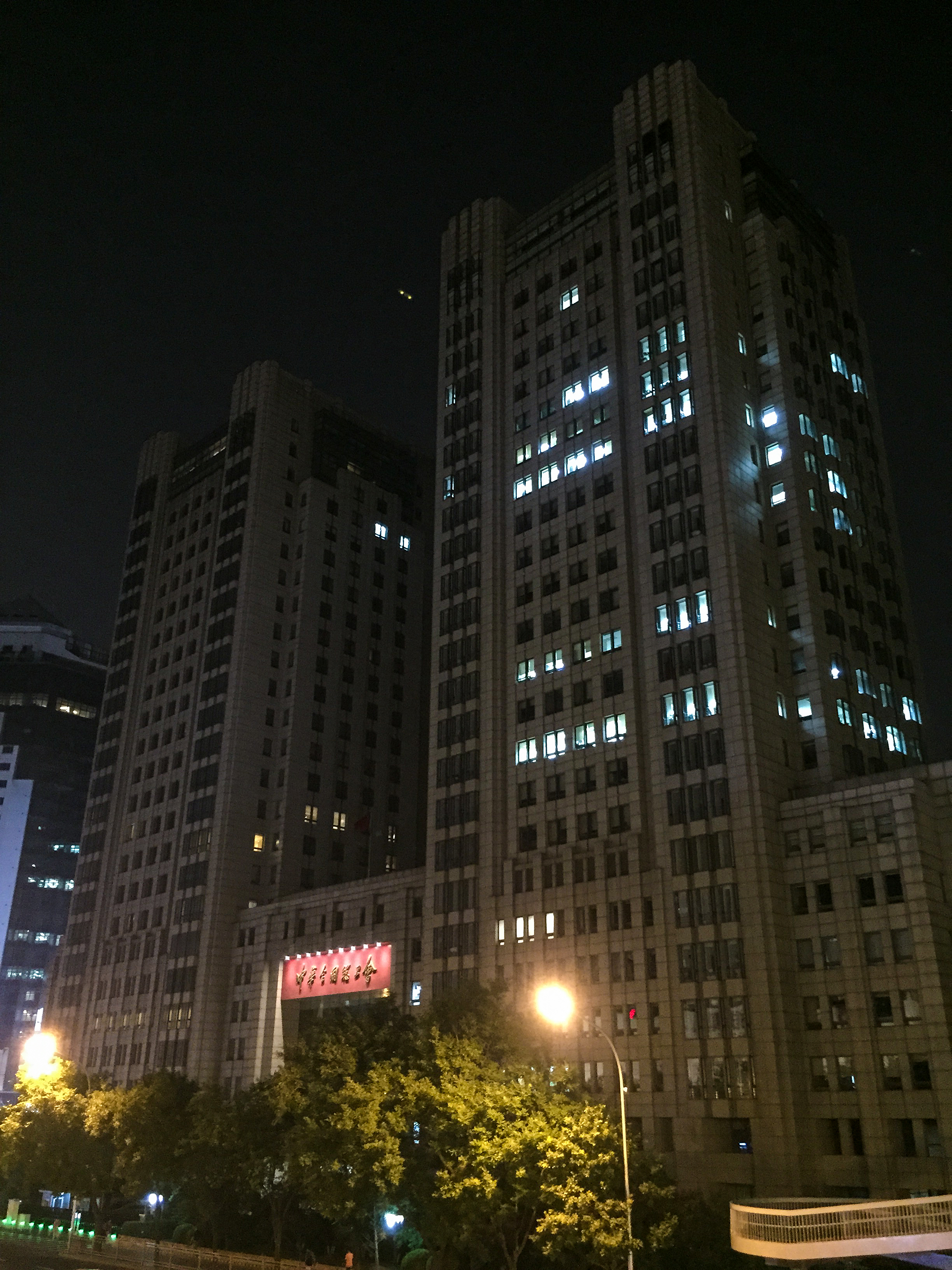 Commonly called "工会大楼" (ACFTU Building).